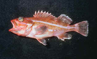 A specimen of a Yelloweye rockfish (Sebastes ruberrimus) young.